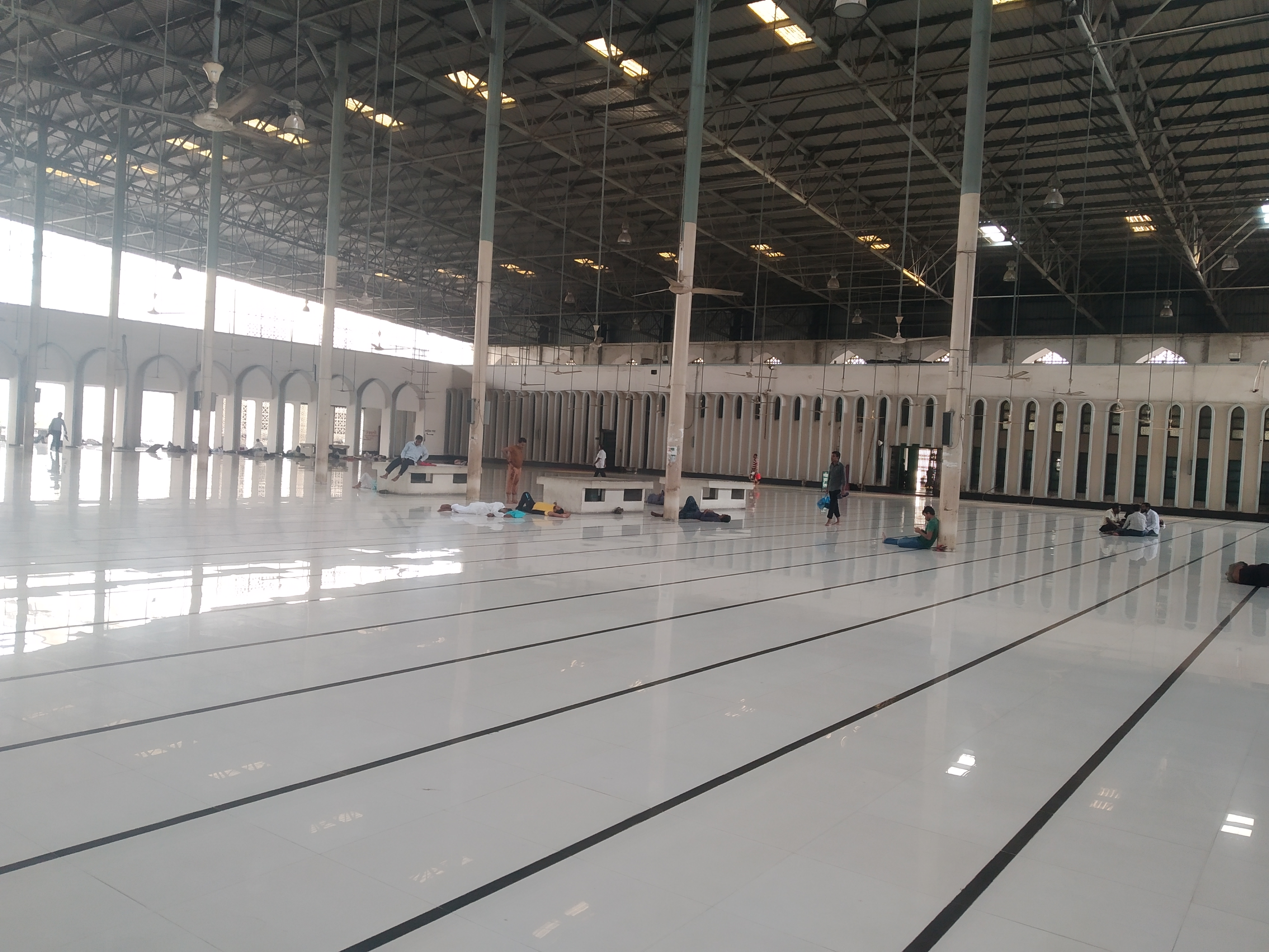 The place is the extension of main prayer hall.